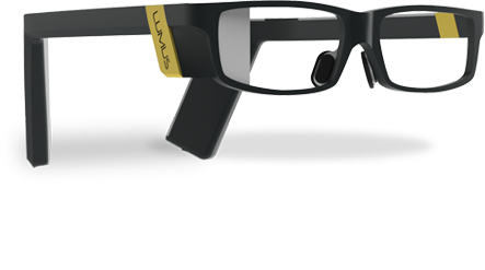 DK45 Image